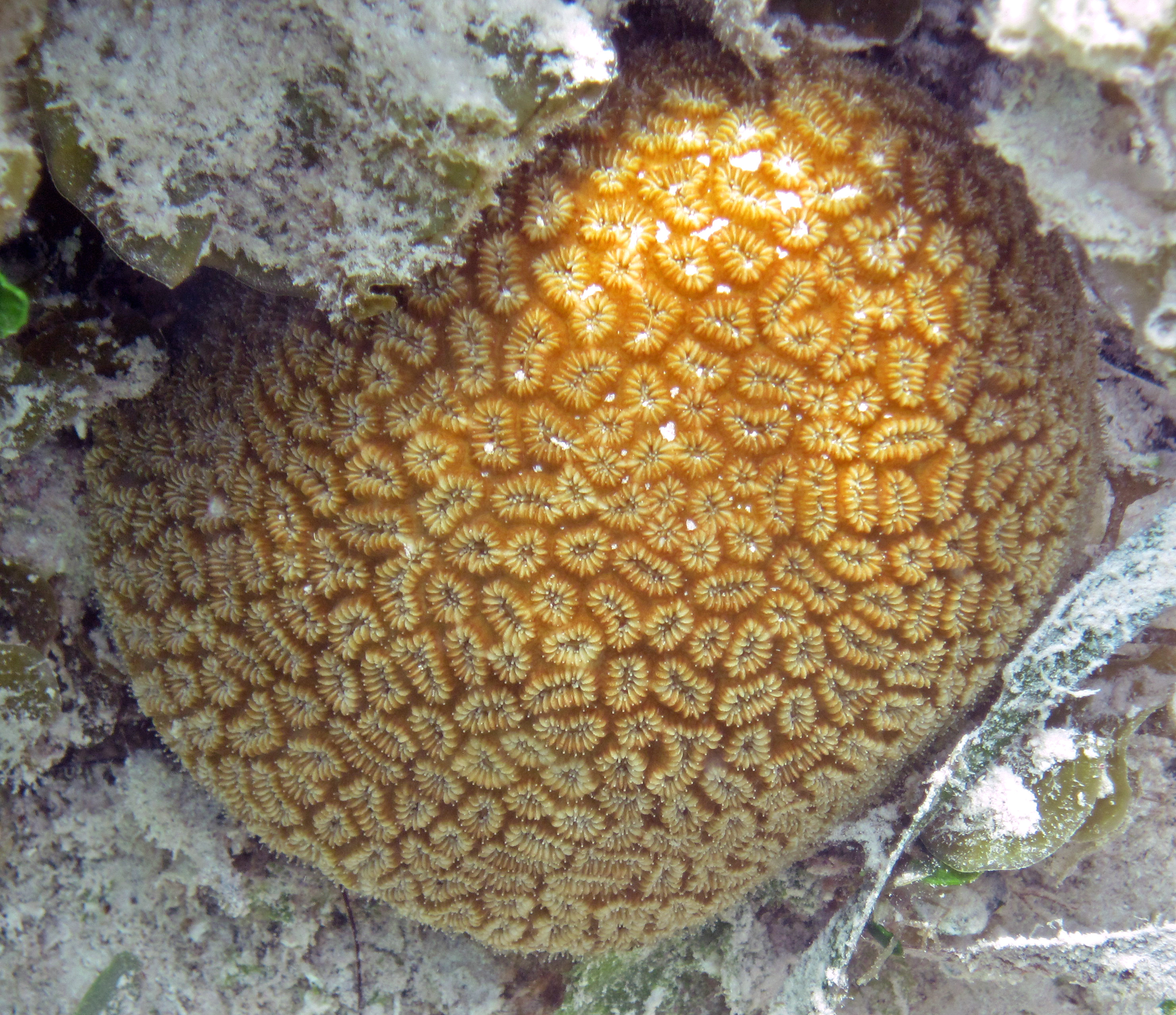 Dichocoenia stokesii Milne Edwards & Haime, 1848 - elliptical star coral on a patch reef. Stony corals have a patchy distribution in the shallow marine waters surrounding San Salvador Island. They occur as isolated individual colonies, in patch reefs, fringing reefs, and barrier reefs. Stony corals are scleractinian anthozoan cnidarians (there are also non-scleractinian stony corals in the fossil record, such as tabulates and rugosans). They consist of individuals or colonies of gelatinous polyps that secrete hard skeletons of aragonite (CaCO3). Most scleractinian corals live in warm, tropical to subtropical, photic zone environments (the shallow portions of the world’s oceans where sunlight penetrates). Microbes (Symbiodinium - Protista, Dinoflagellata/Pyrrhophyta) called zooxanthellae live in their tissues and need to be in sunlight to make their own food (photosynthesis), which is shared with the host coral animal. Scleractinian corals have stinging cells (nematocysts) in their tentacles that paralyze prey. Classification: Animalia, Cnidaria, Anthozoa, Scleractinia, Meandrinidae Locality: patch reef just west of Cut Cay, eastern Graham's Harbour, northeastern San Salvador Island, eastern Bahamas